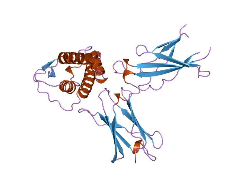 Cartoon representation of the molecular structure of protein registered with 1iar code.